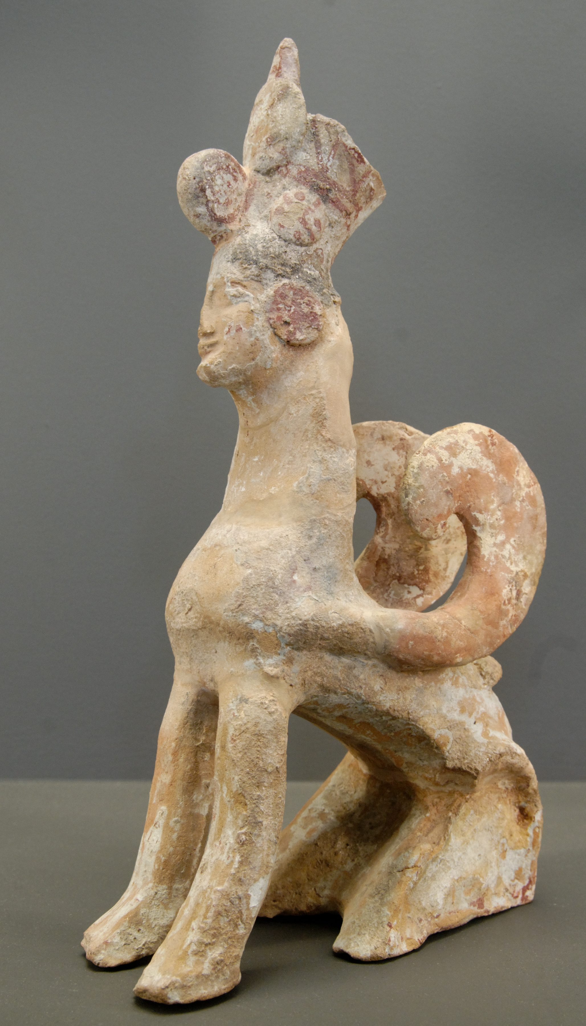 Sphinx. Terracotta figurine, Boeotian artwork, ca. 550–525 BC. From Thebes.